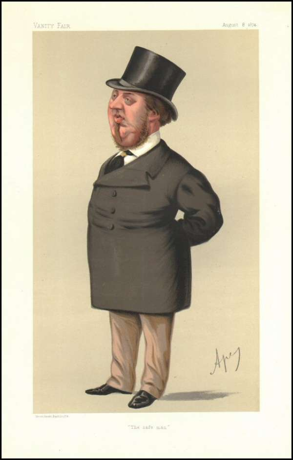 Statesmen No.181: Caricature of The Rt Hon G Sclater-Booth MP. Caption reads: "The safe man"